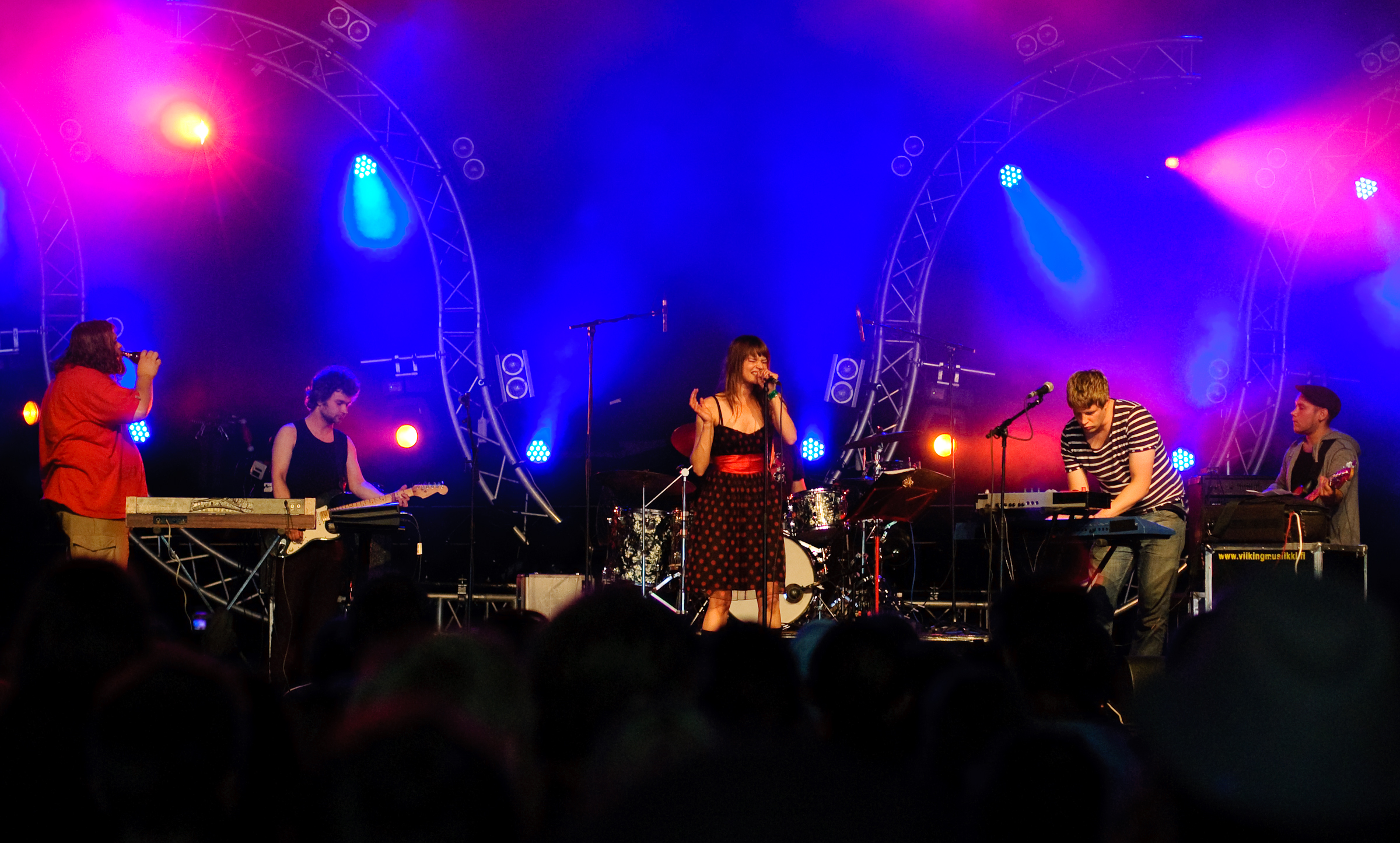 The Finnish band Eleanoora Rosenholm performing at the Ilosaarirock festival in Joensuu, Finland.